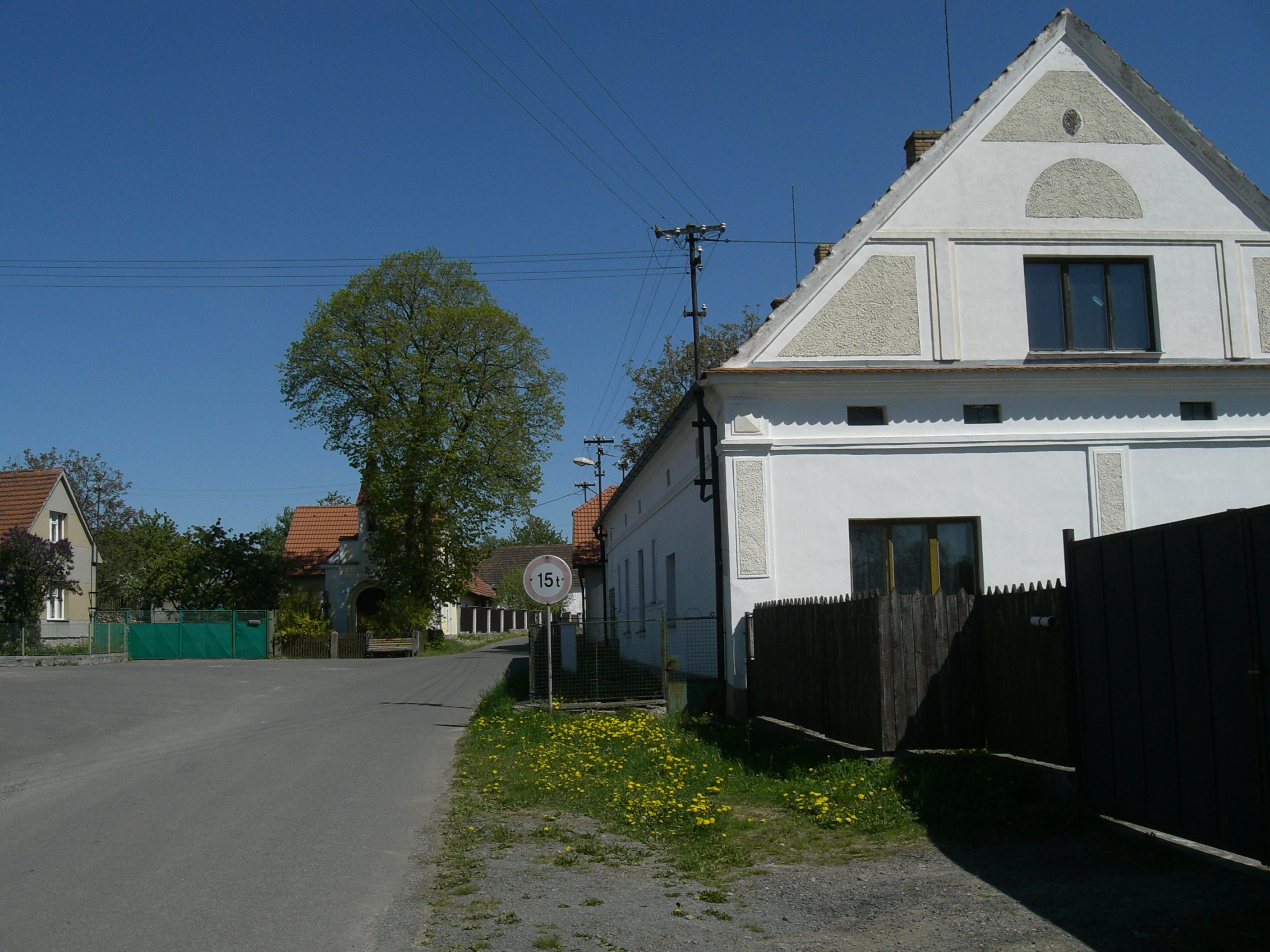 Okrouhlá village in Písek District, Czech Republic.